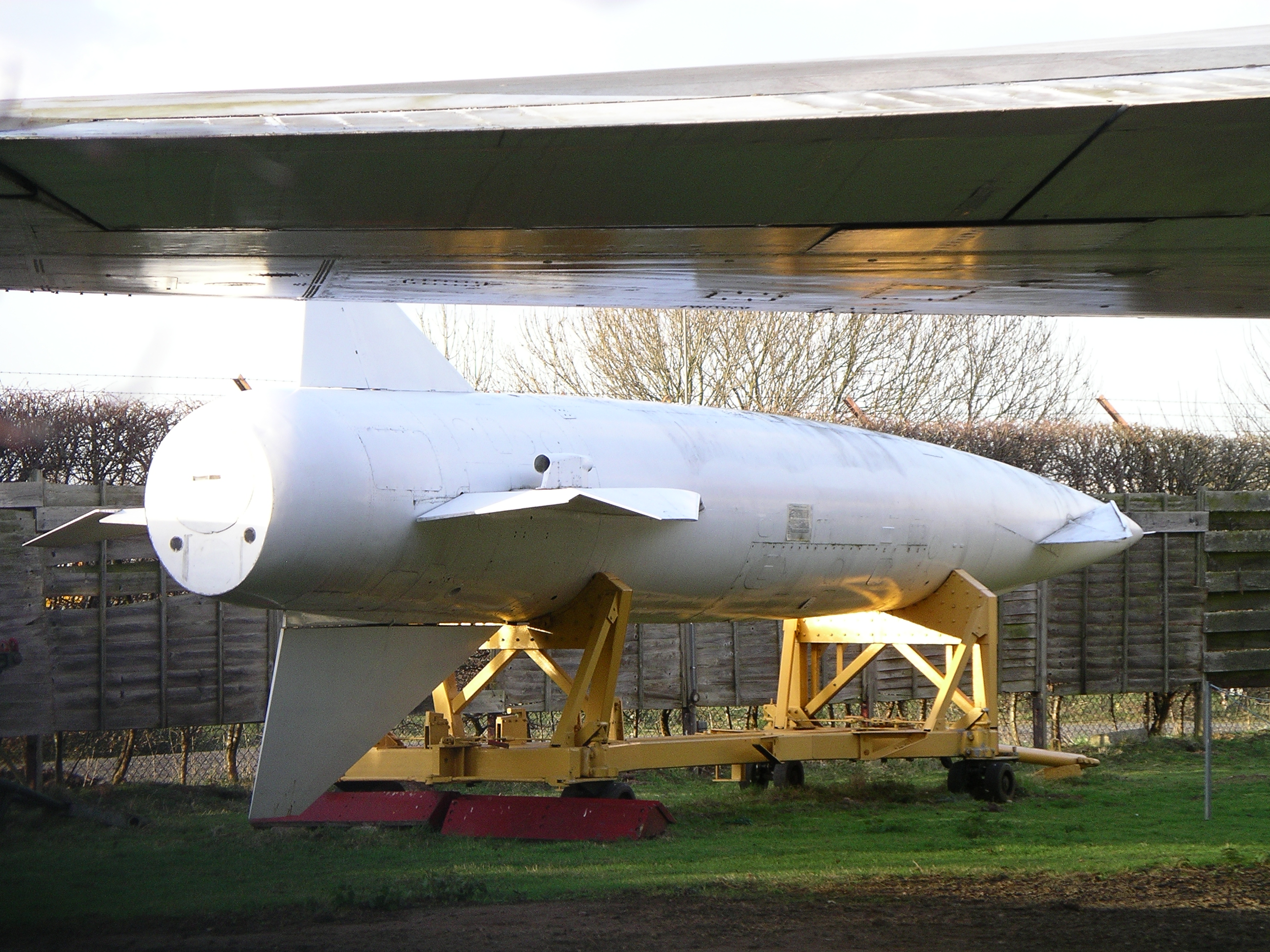 Photo taken by me on 9 March 2007 of the Avro Blue Steel nuclear missile (side view) at the Midland Air Museum, Warwickshire, England.